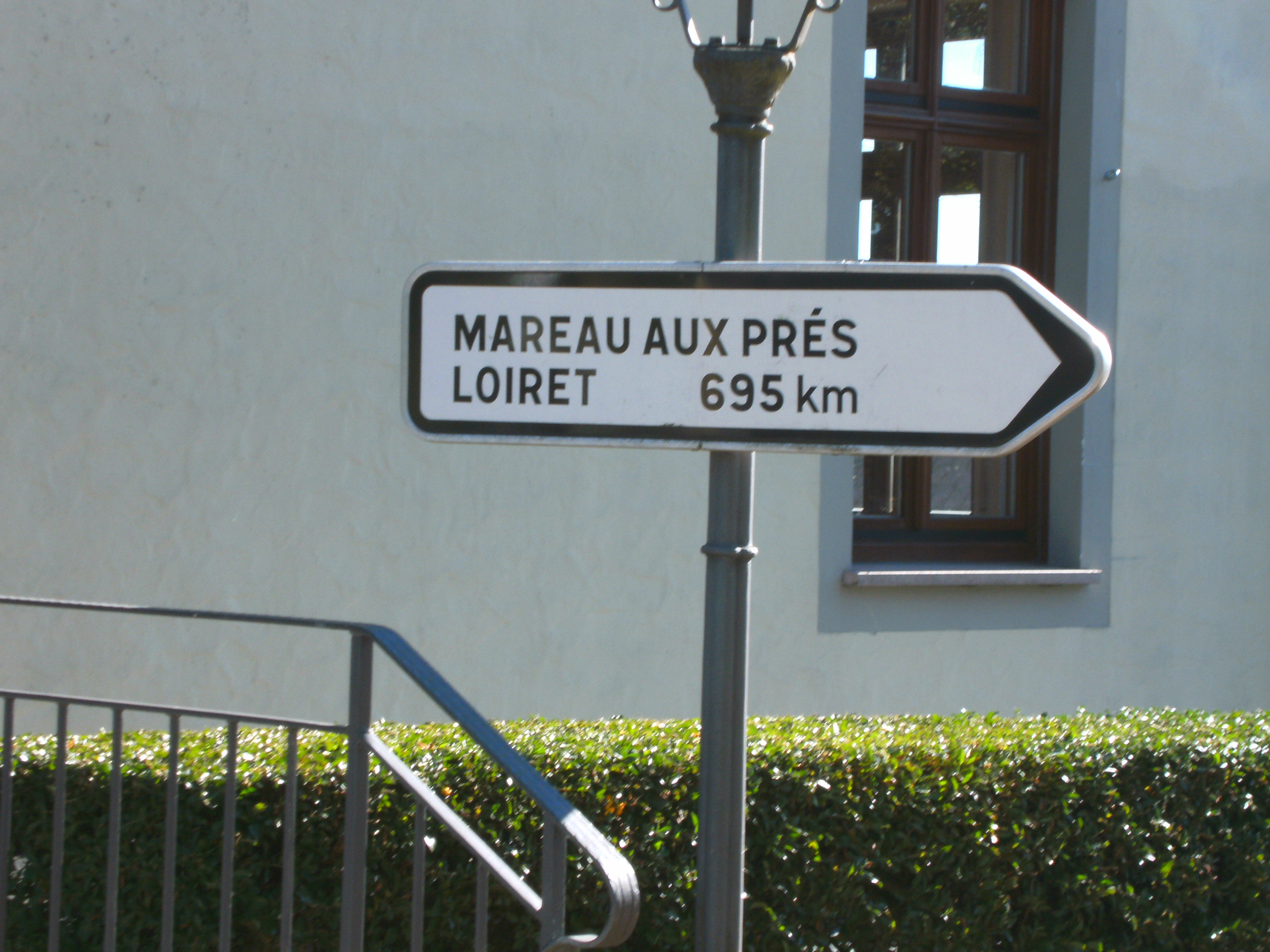 Stetten (Bodenseekreis), Germany: Twin town Mareau-aux-Prés.